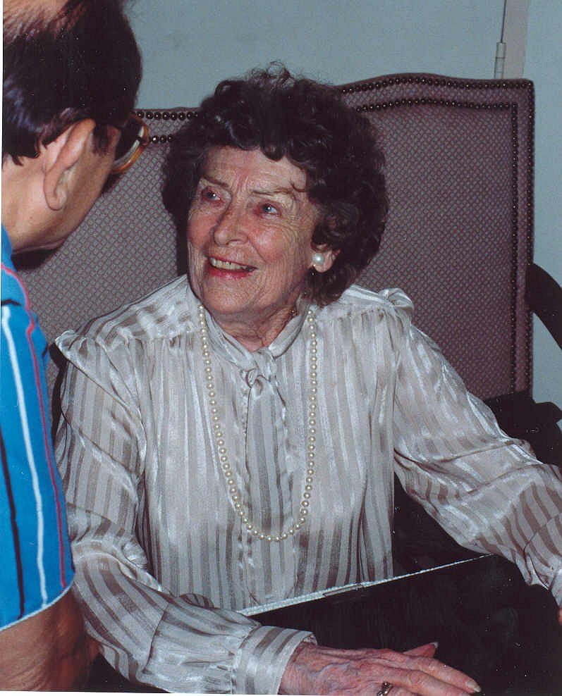 Photo taken at Cinecon 26, 1990 - Ann Doran was james Dean's mother in Rebel Without A Cause, among many other roles - Permission granted to copy, publish or post but please credit "photo by Alan Light" if you can Other version : Image:Anndoran cropped.jpganndoran